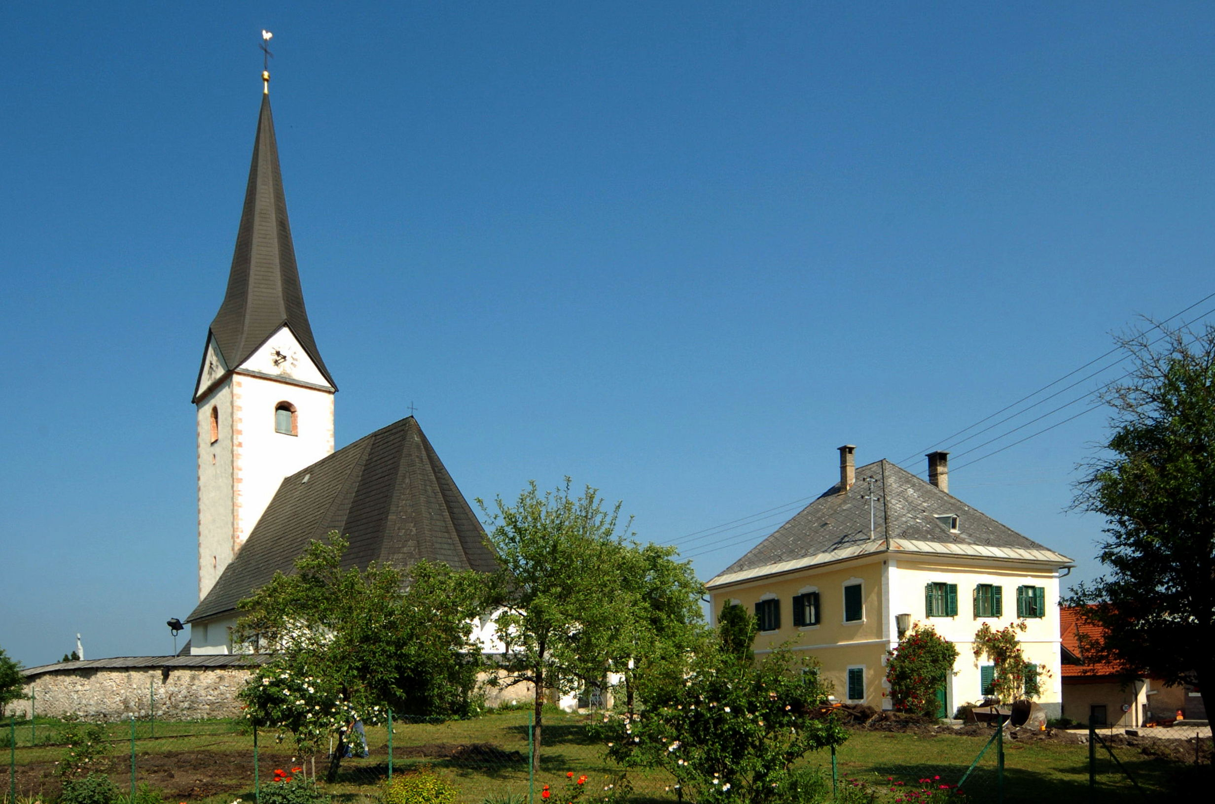 Parish church Saint Margaret and rectory in Sankt Margareten im Rosental, municipality Sankt Margareten im Rosental, district Klagenfurt Land, Carinthia, Austria, EU